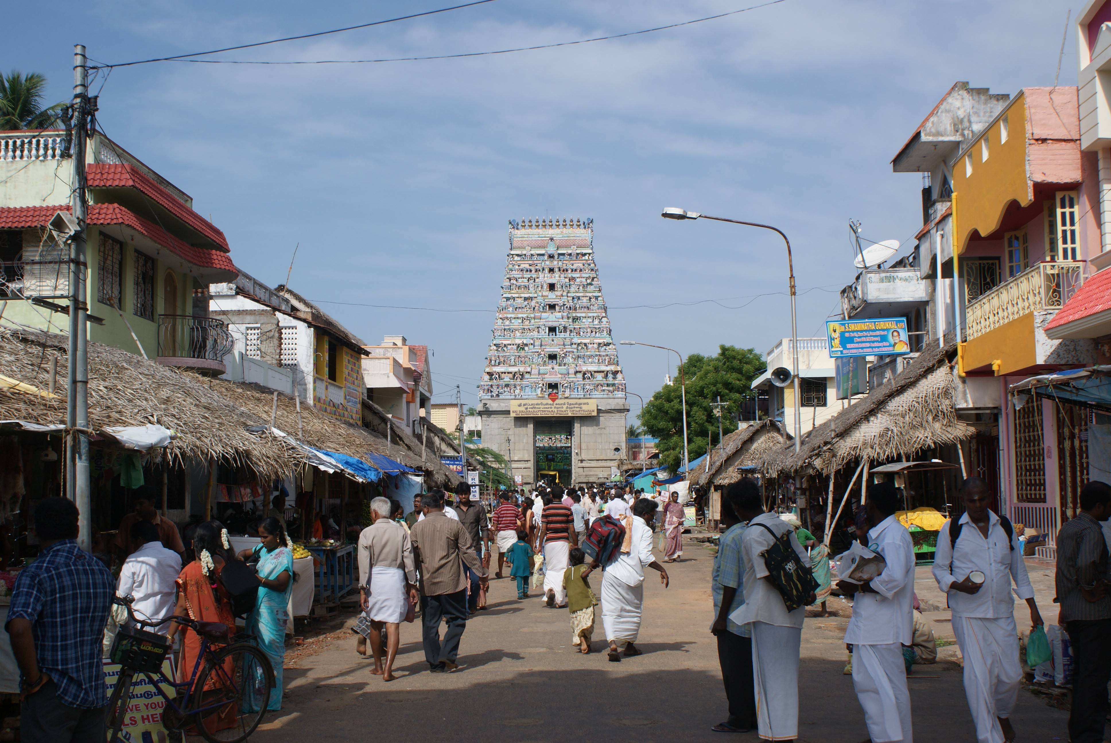 Tirunallar, street towards the Saniswaran Temple